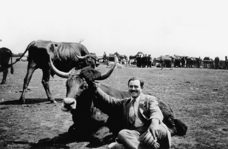 Ernest Hemingway with bull, near Pamplona, Spain.